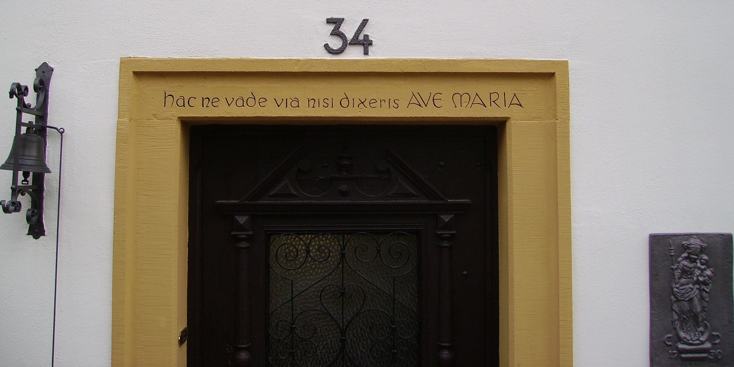 village of Marktgemeinde Heiligenstadt near Bamberg (Upper Franconia) in Germany